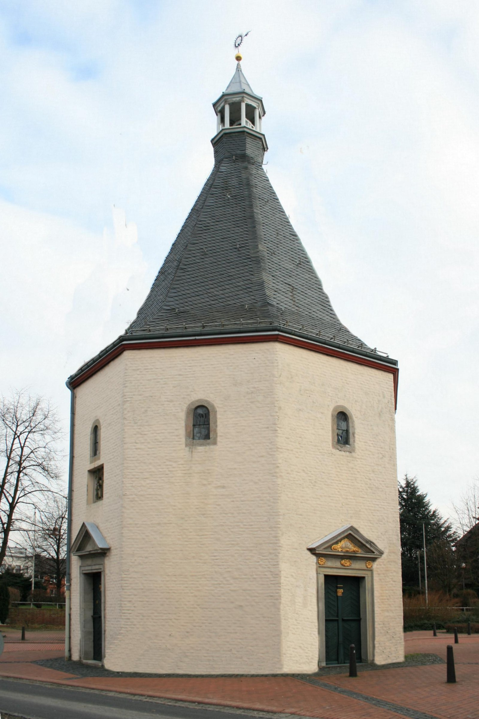 Cultural heritage monument No. 15 in Aldenhoven